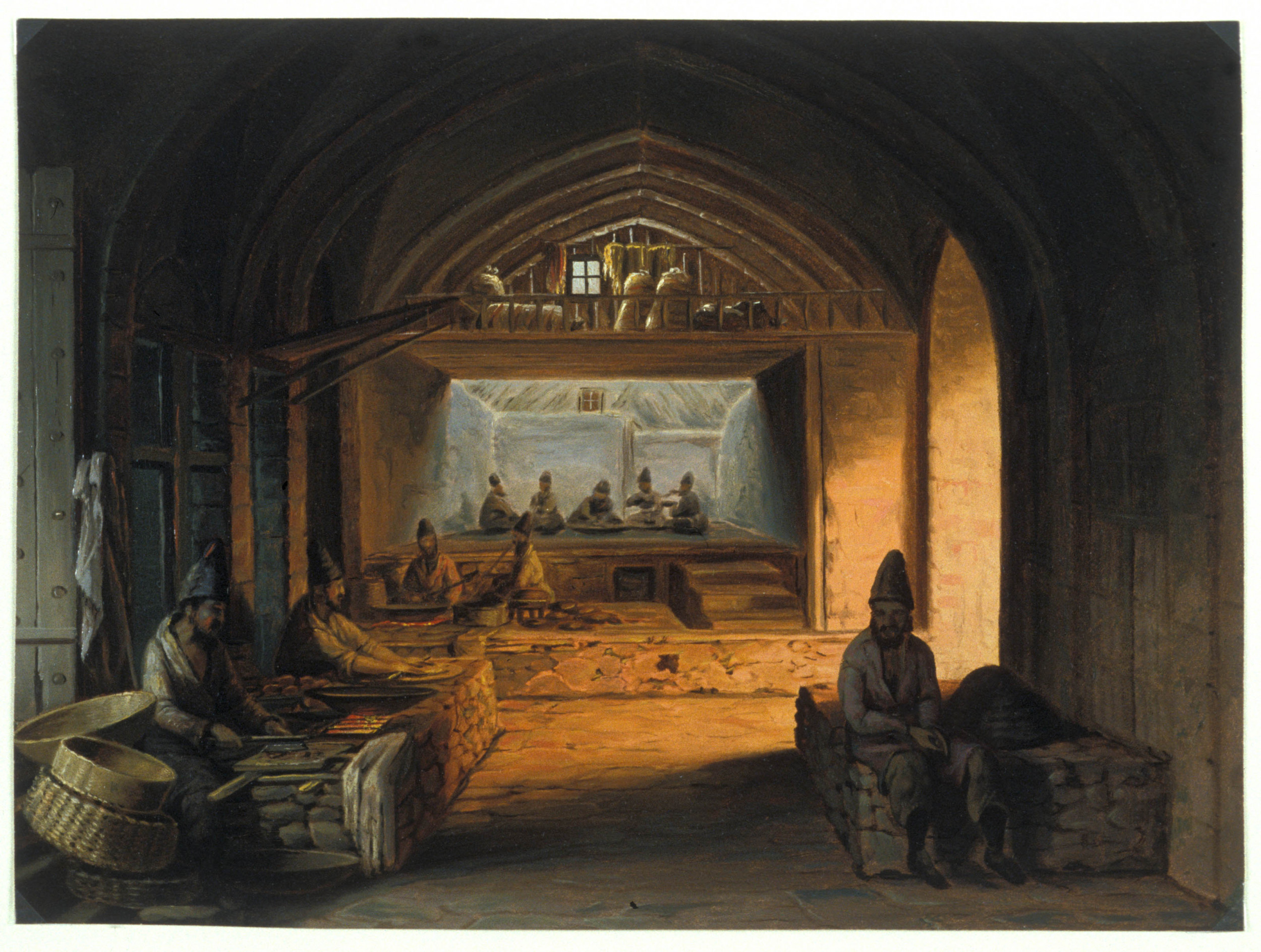 August Wilhelm Kiesewetter (1811-1865). Baku dining house